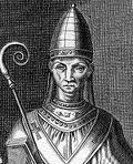 Lithograph of Pope John X, made before 1923